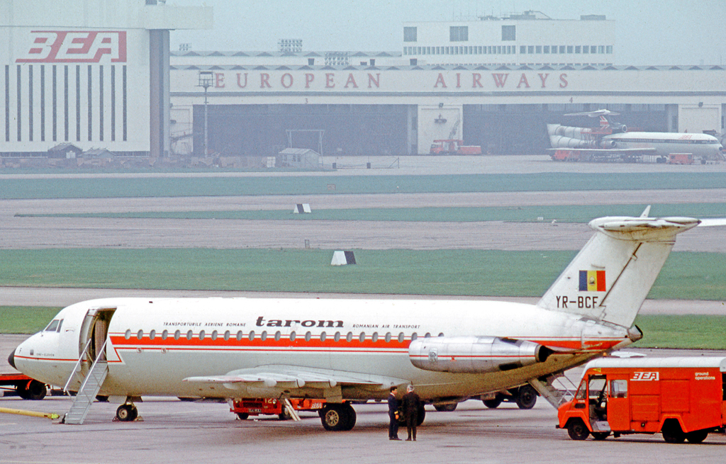 BAC 1-11 Series 424 of TAROM at London Heathrow Airport in 1971